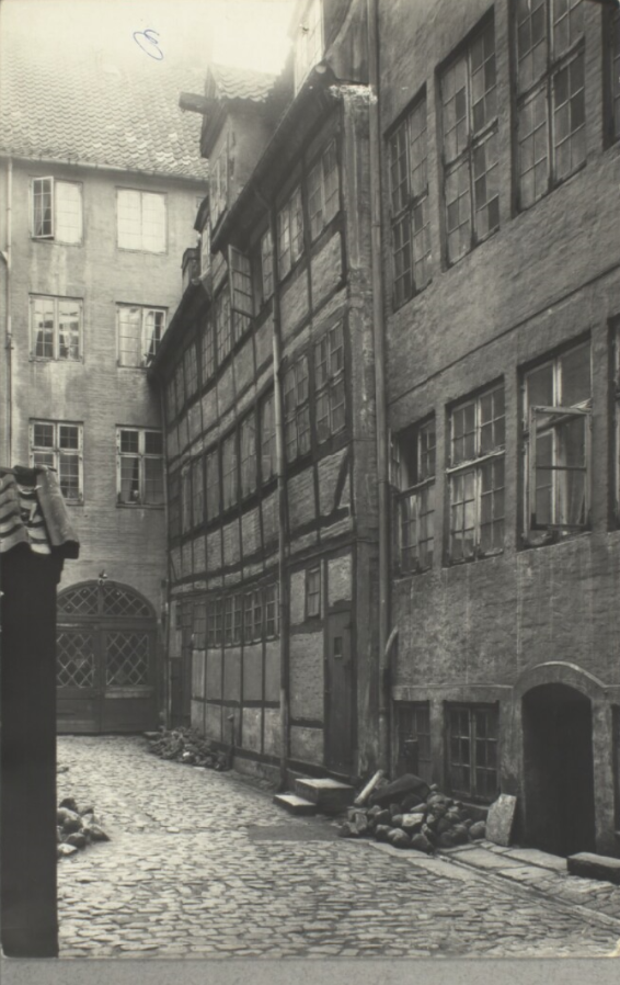 The courtyard of Strandgade 10 in Copenhagen, Denmark